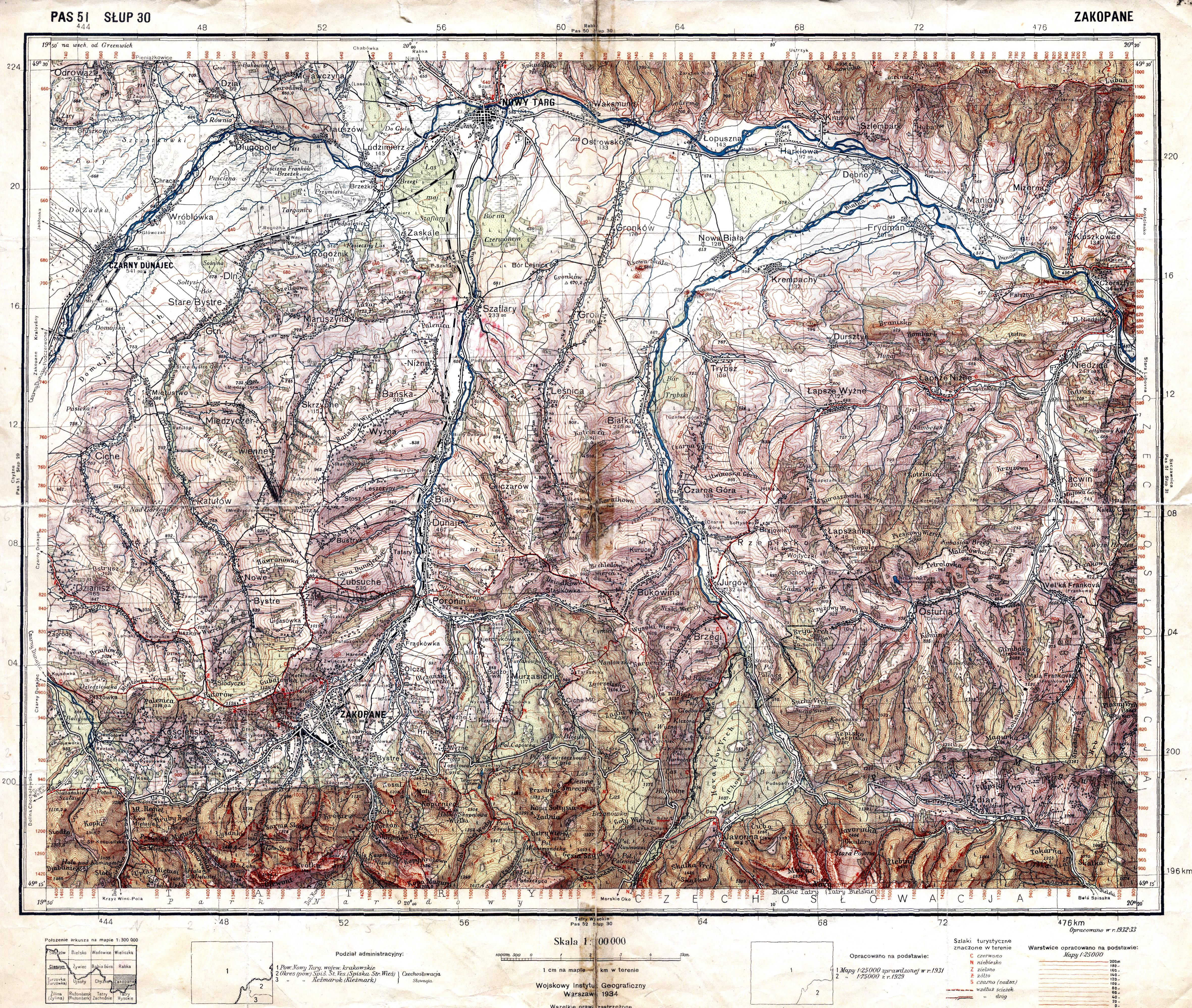 Map of Zakopane in scale 1:100,000